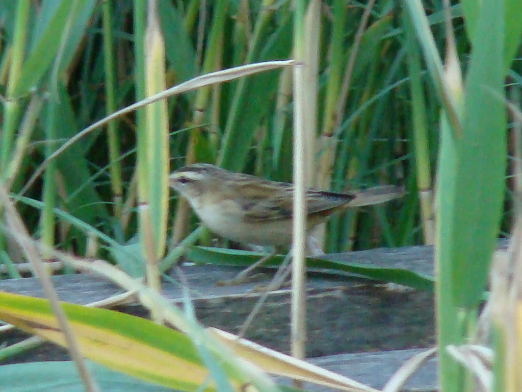 Photo of the Sedge Warbler (Acrocephalus schoenobaenus) in Siauliai, Raizgiai, Lithuania.